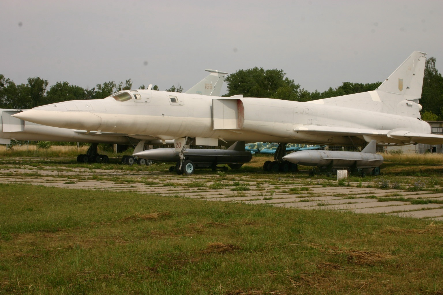 At Kiev - Zhulhany Museum